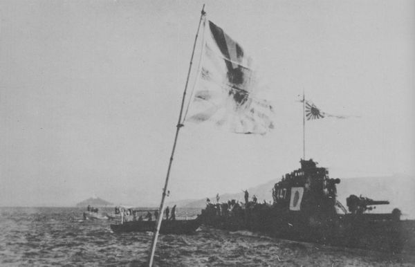 HIJMS I-47